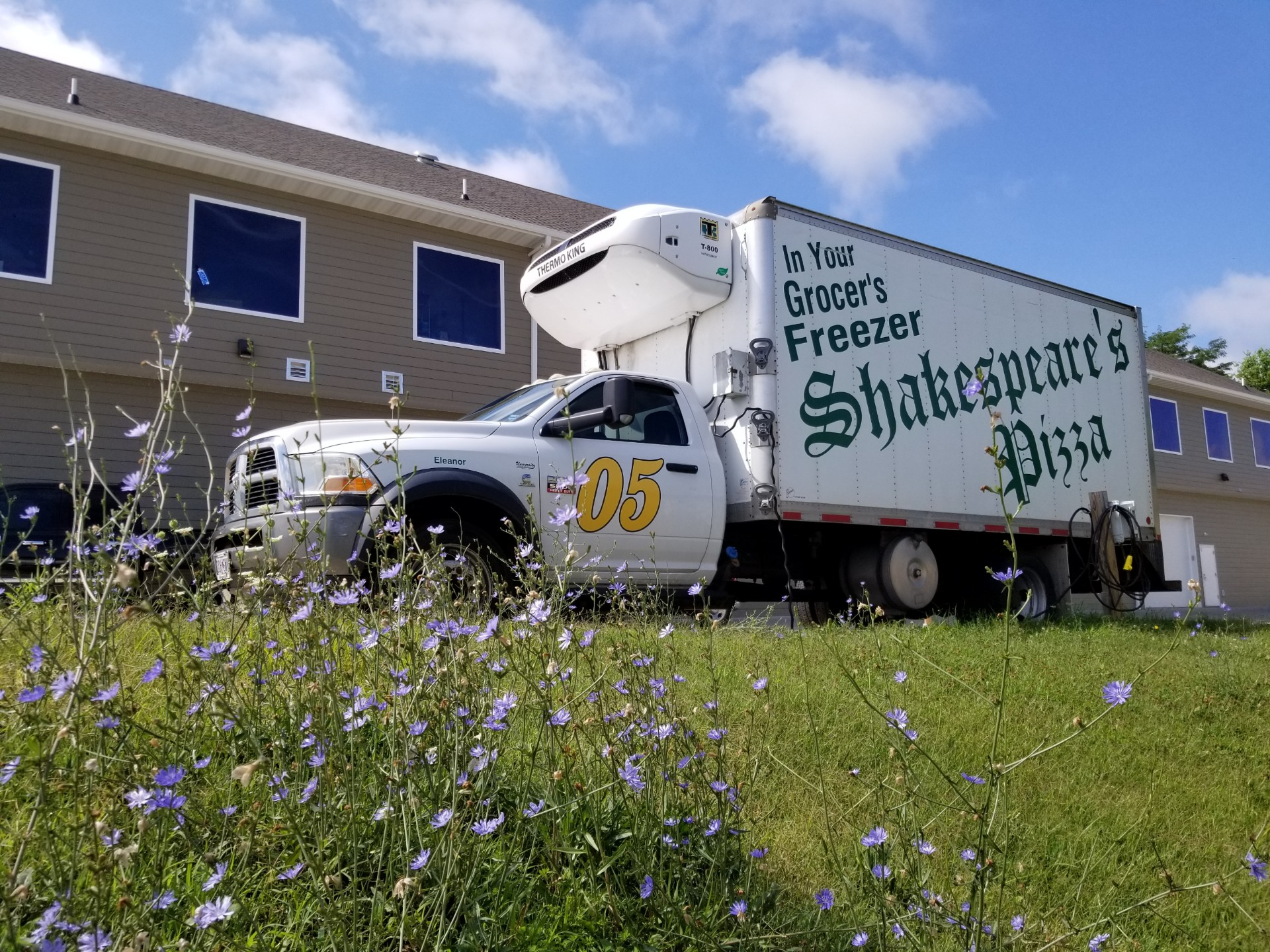 A Shakespeare’s Frozen Pizza delivery truck and some flowers by Bcat